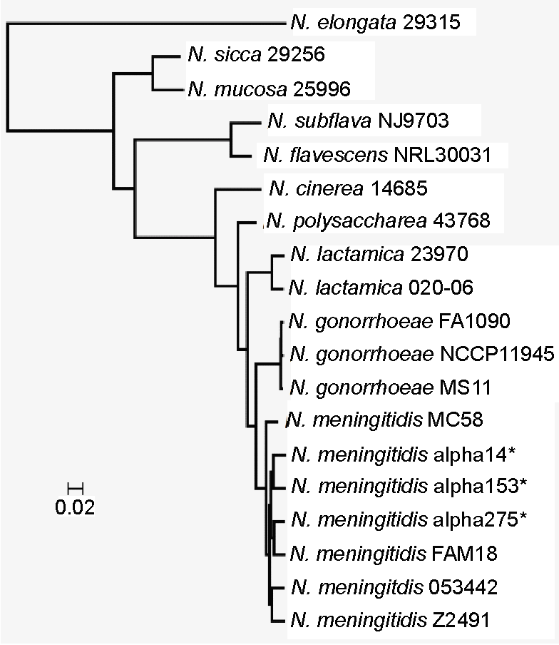 Maximum likelihood Neisseria species tree based on concatenating the DNA sequences of all 896 core Neisseria genes. From Marri PR, Paniscus M, Weyand NJ, Rendón MA, Calton CM, Hernández DR, et al. (2010) Genome Sequencing Reveals Widespread Virulence Gene Exchange among Human Neisseria Species. PLoS ONE 5(7): e11835.